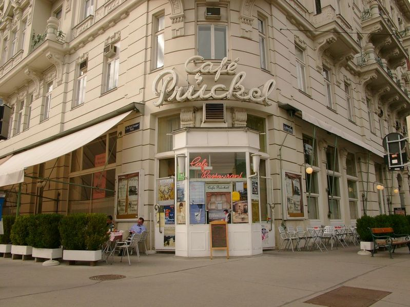 Café Prückel, Vienna, Austria